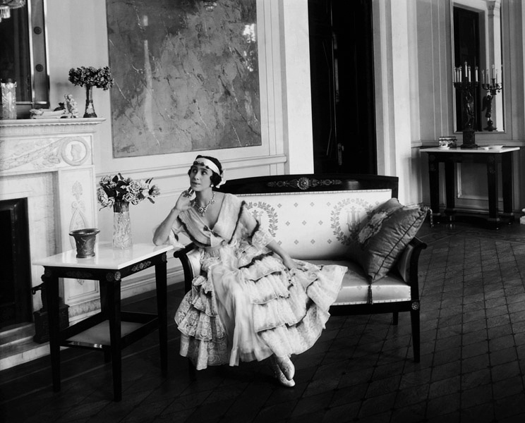 Mathilde Kschessinska in the drawing-room of her mansion